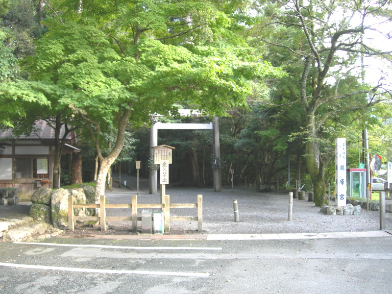 In front of the Betsugu Takihara-no-miya Sanctuary of Kotaijingu(Naiku) at Taiki town Mie Prf. Japan.